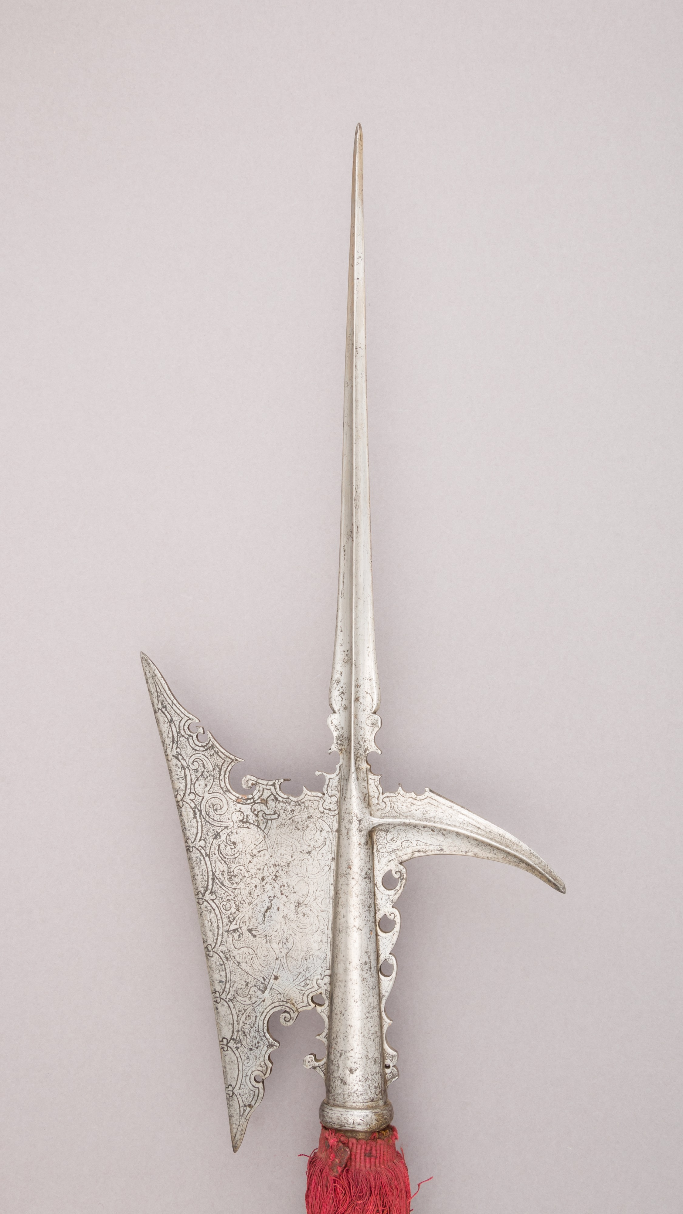 Italian; Halberd; Shafted Weapons